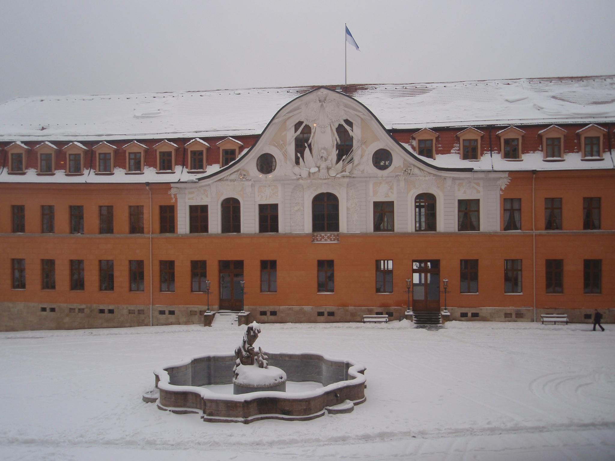 Sondershausen Palace with herkules fountain